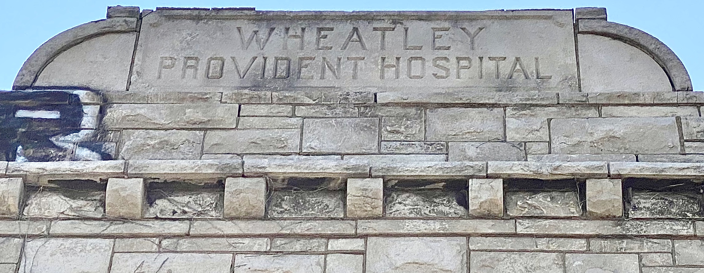 Wheatley-Provident Hospital title etched above the east-facing front door